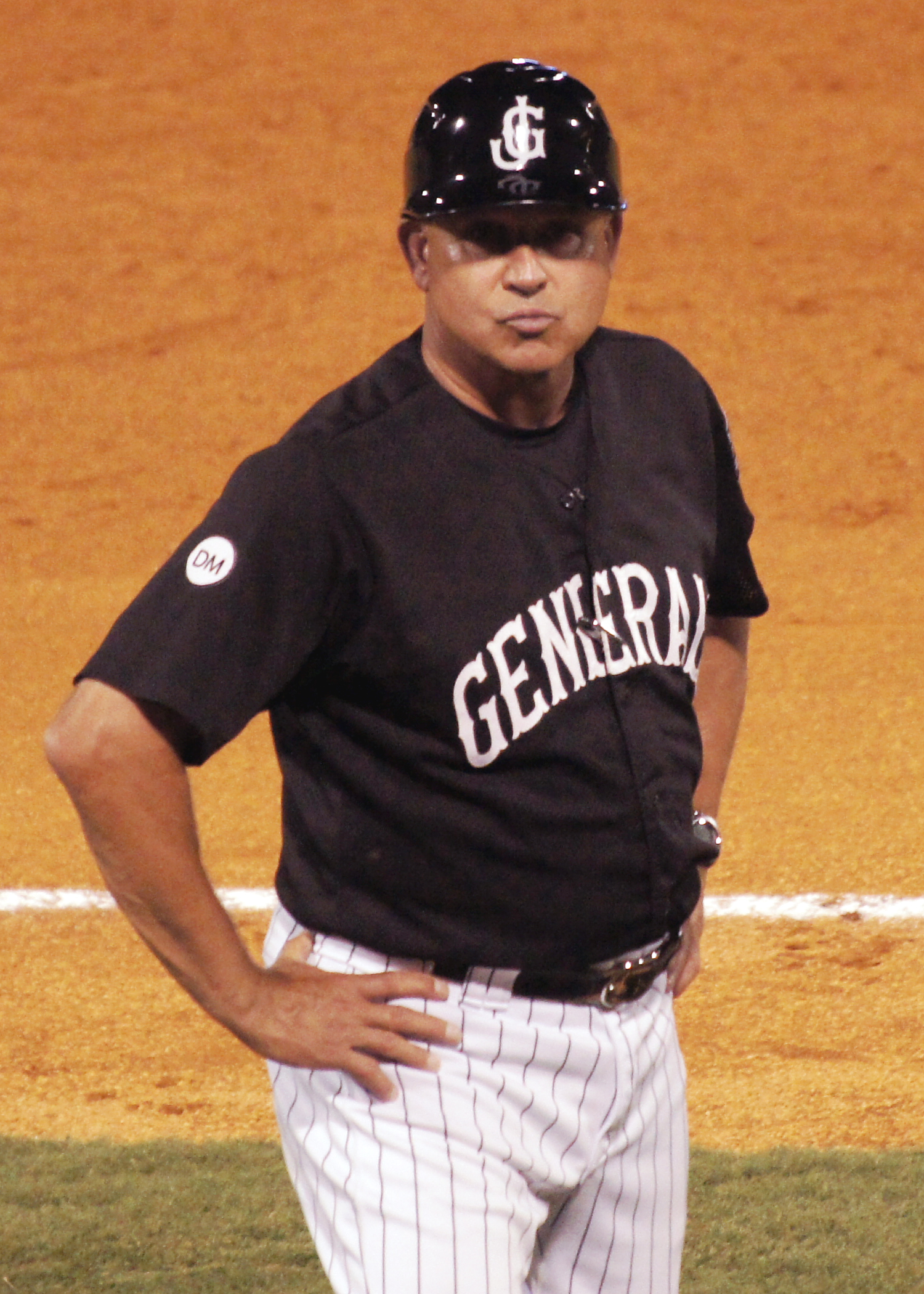 Jackson Generals minor league baseball (Seattle Mariners affiliate) #20 Jim Pankovits infielder manager